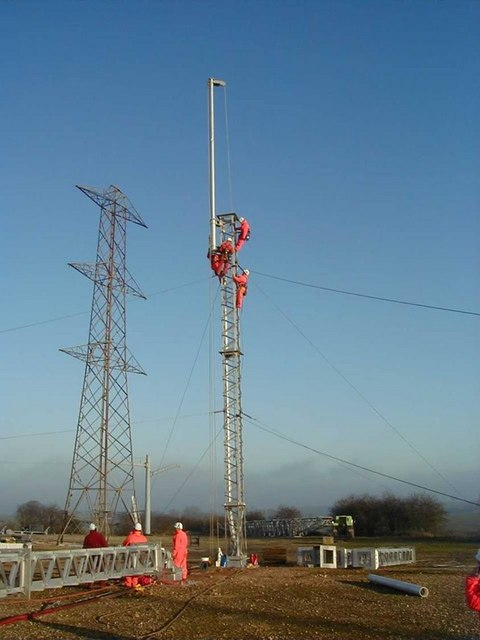 Building pylons At Eakring training centre Training for tower erection on the Eakring training centre for National Grid. Permanent Tower shown beyond.